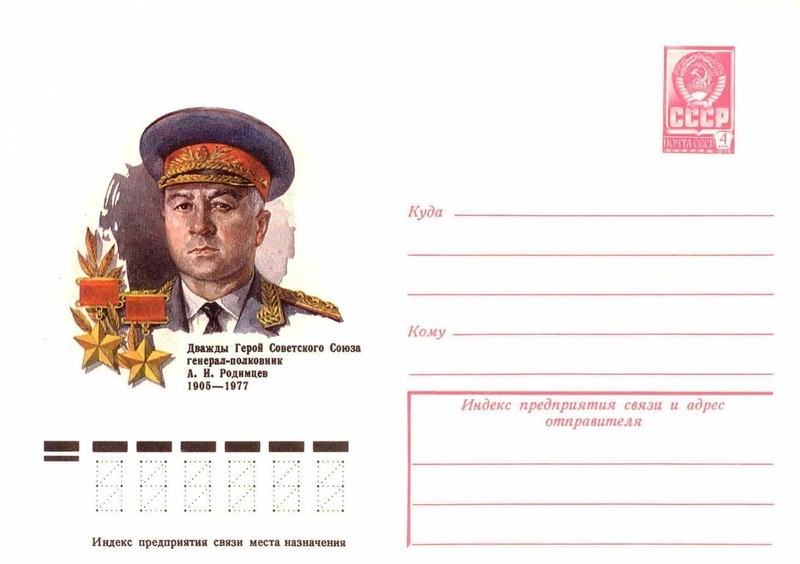 1978 Soviet postal cover featuring portrait of Aleksandr Rodimtsev